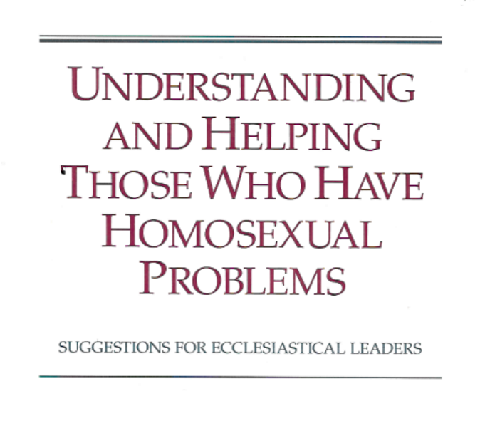 Cover of "Understanding and Helping Those Who Have Homosexual Problems: Suggestions for Ecclesiastical Leaders", a 1992 manual which marked a shift in LDS church rhetoric around homosexuality.